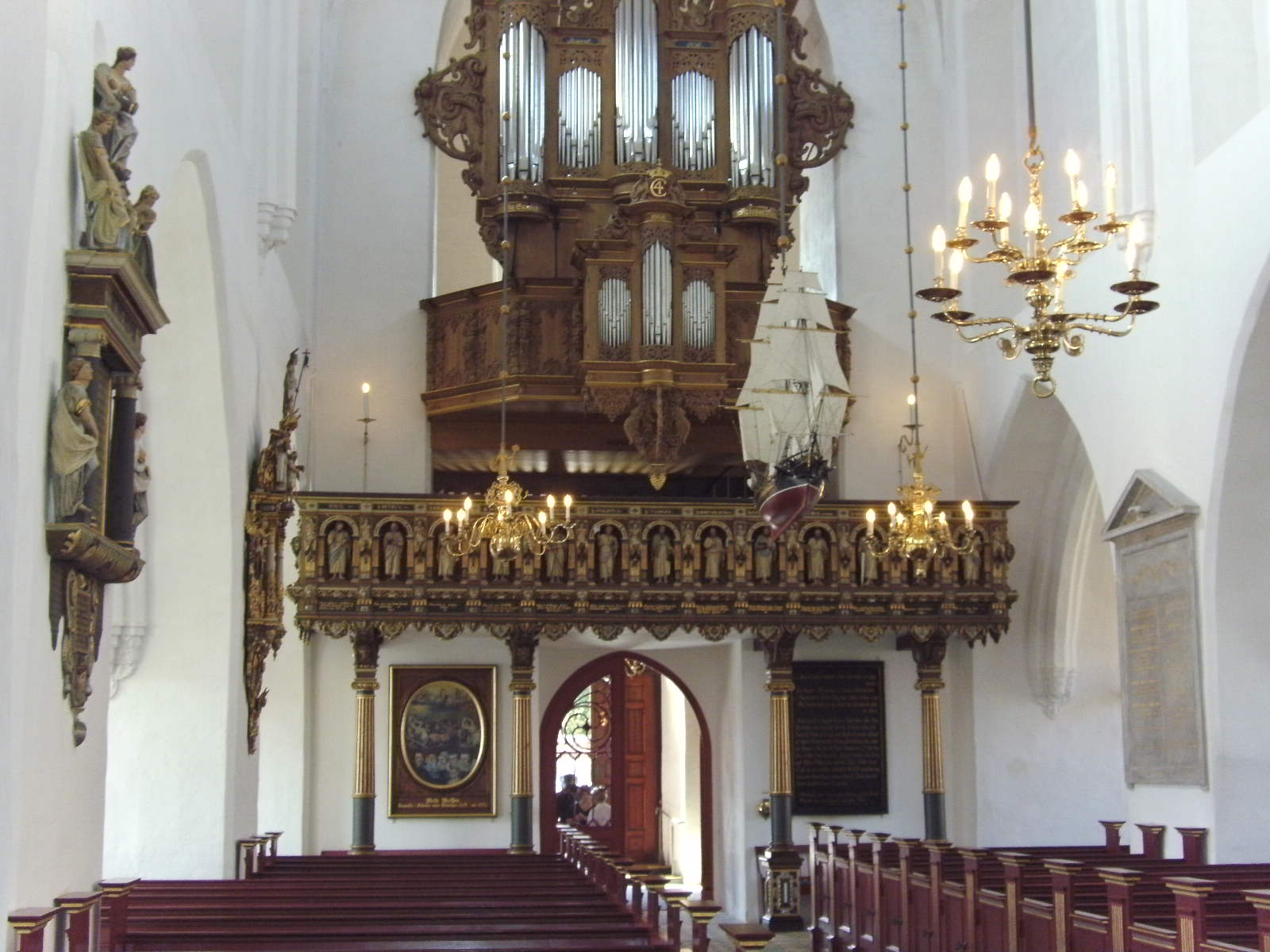 Organ of Sankt_Nikolai Church in Nakskov, Community of Lolland, diocese of Lolland-Falster. Date: 2010.08.16 Author: Sir48